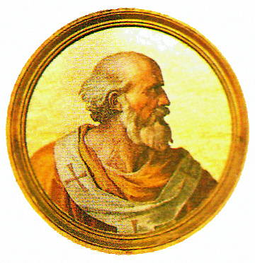 Portrait of Pope Boniface V un the Basilica of Saint Paul Outside the Walls, Rome